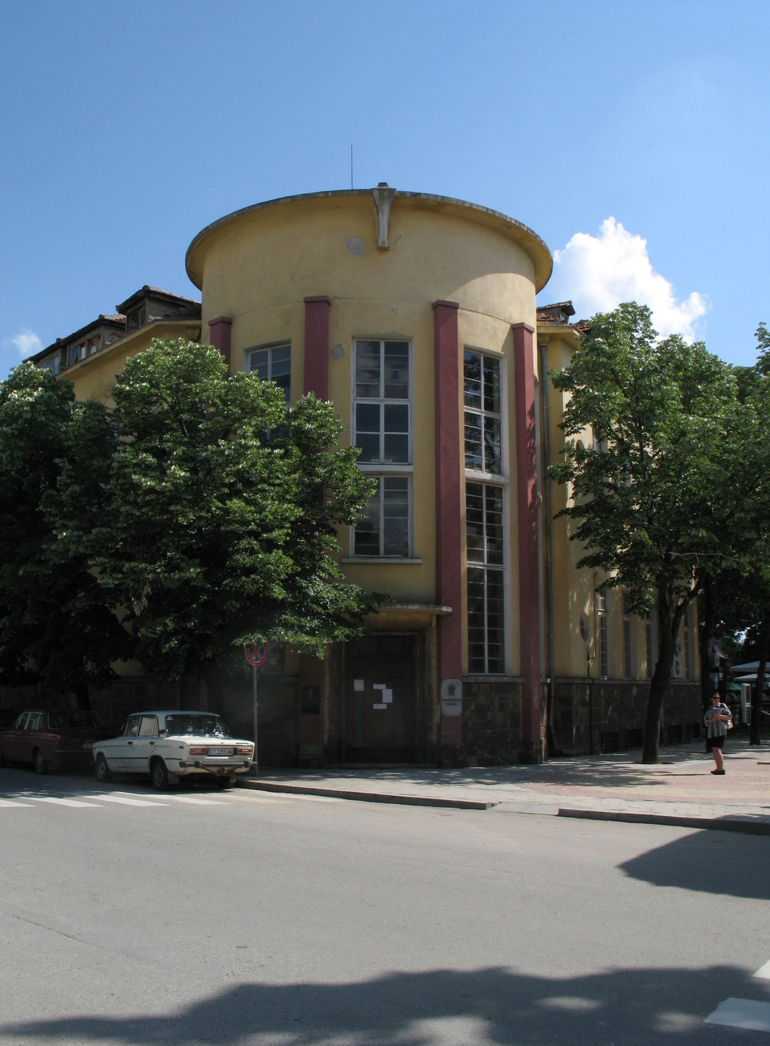 Iskra Library, Iskra Street, Kazanlak